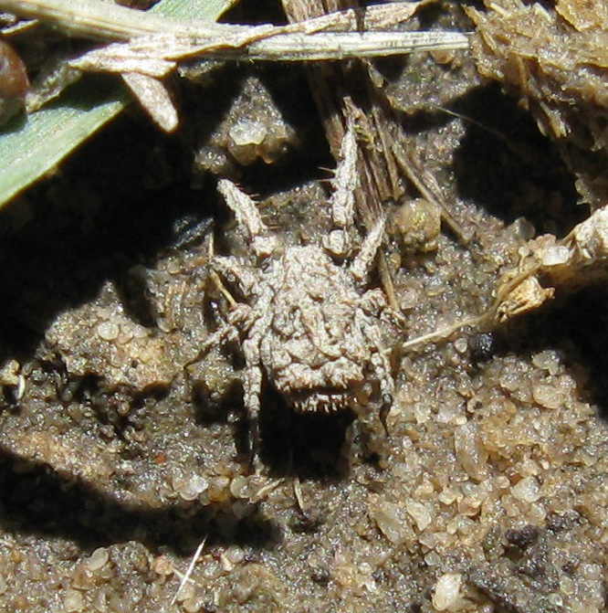 A large (several mm long) rake mite or rake-legged mite in the family Caeculidae, in the Little Karoo town of Uniondale, Western Cape, South Africa. The biology of the family Caeculidae (named after the Roman mythological character Caeculus) seems little known. They are presumably predatory, judging from their spiky legs. This specimen had been walking in the open; possibly hunting, or having been disturbed.